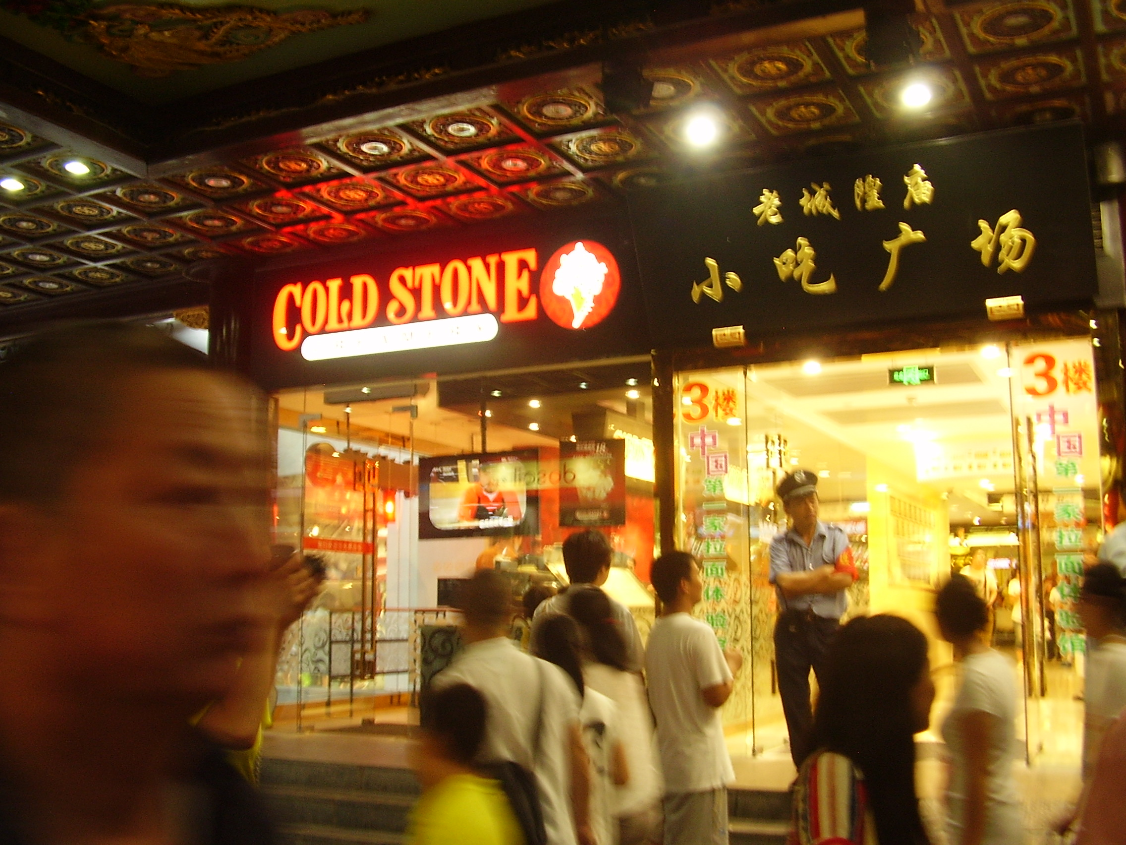 Cold Stone Creamery in Shanghai